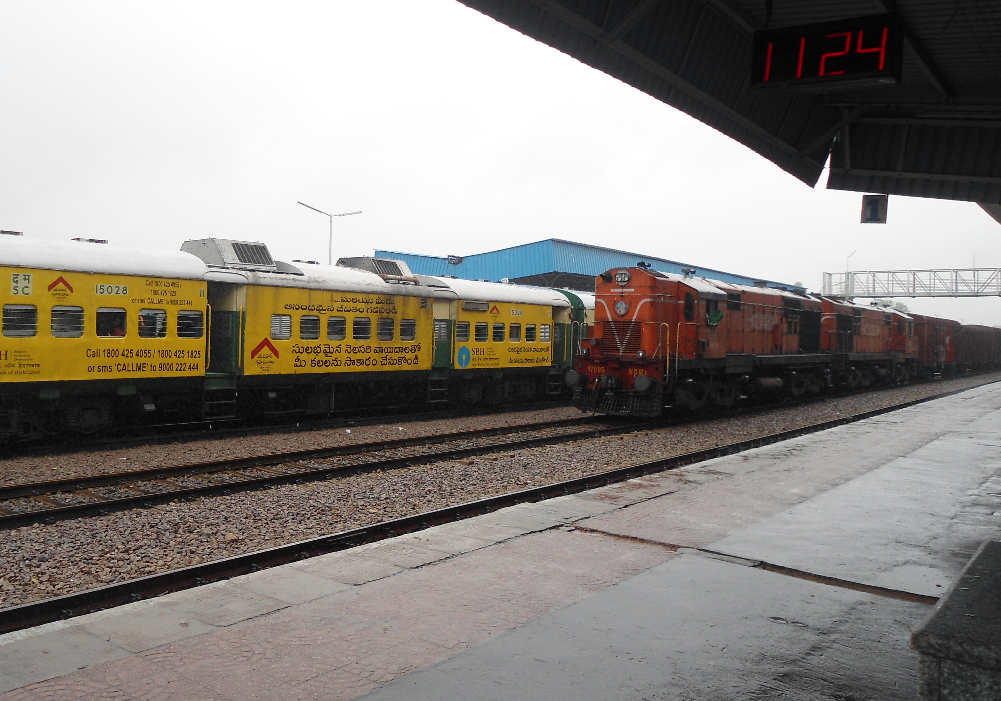 Medchal Local and Freight train with WDM2 series loco at Bolarum Railway Station, Hyderabad